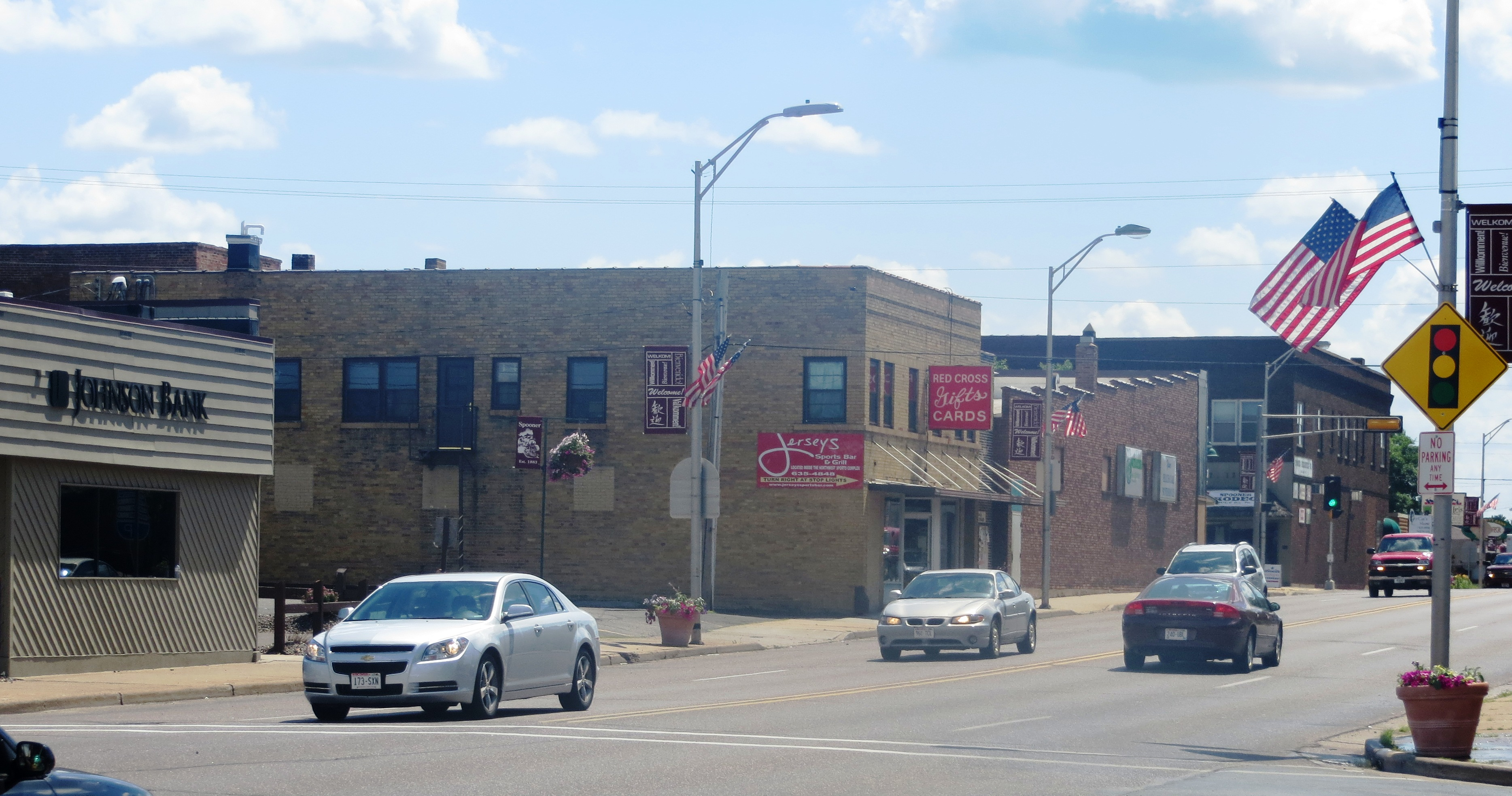 Image from Washburn county, Wisconsin (USA). Taken in the town of Spooner.